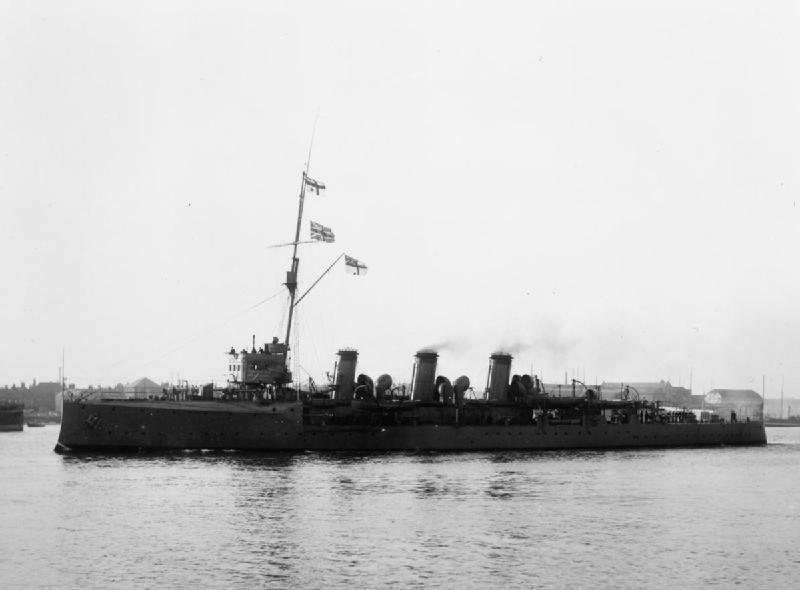 British scout cruiser HMS SKIRMISHER.